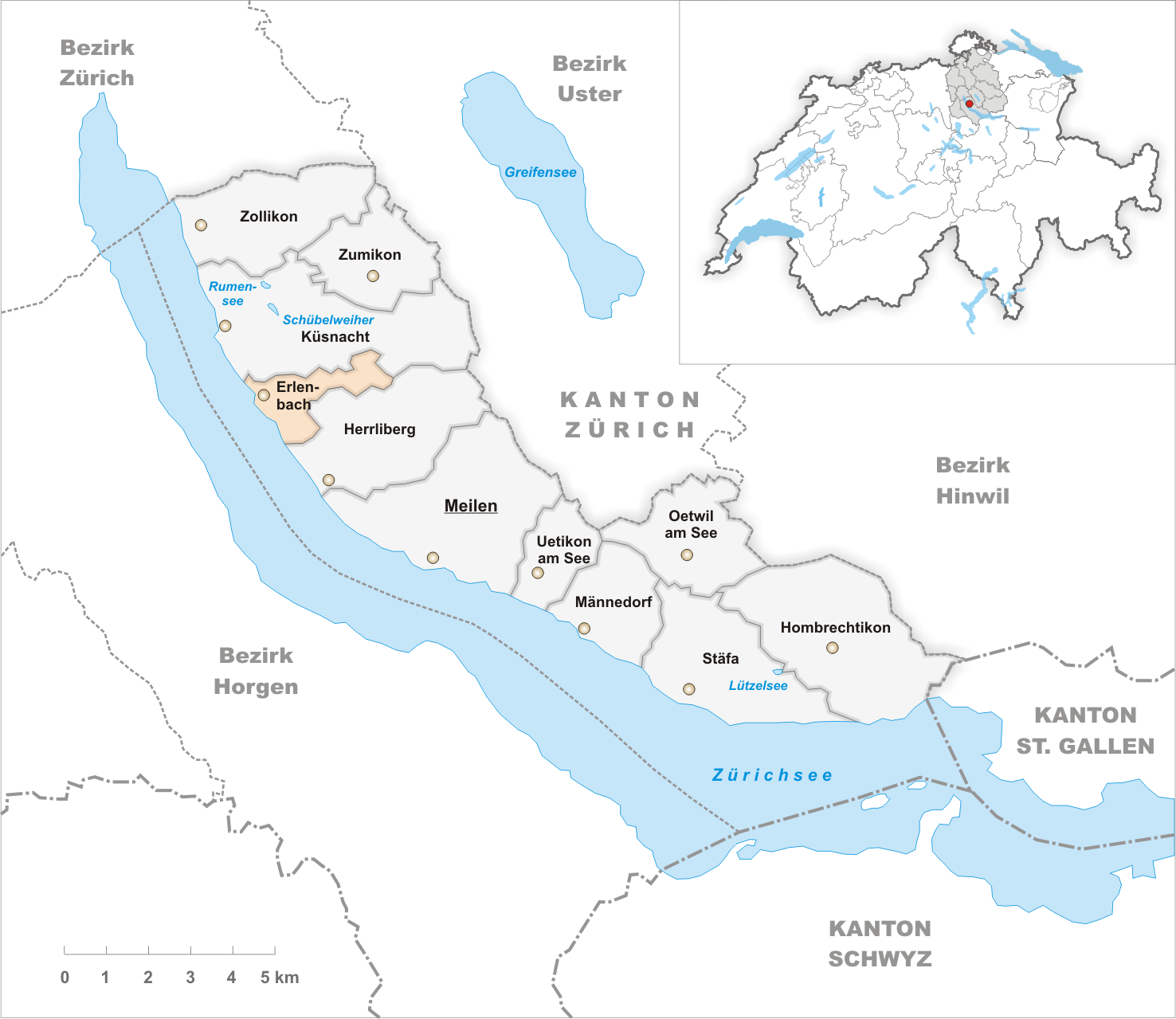 Municipality Erlenbach